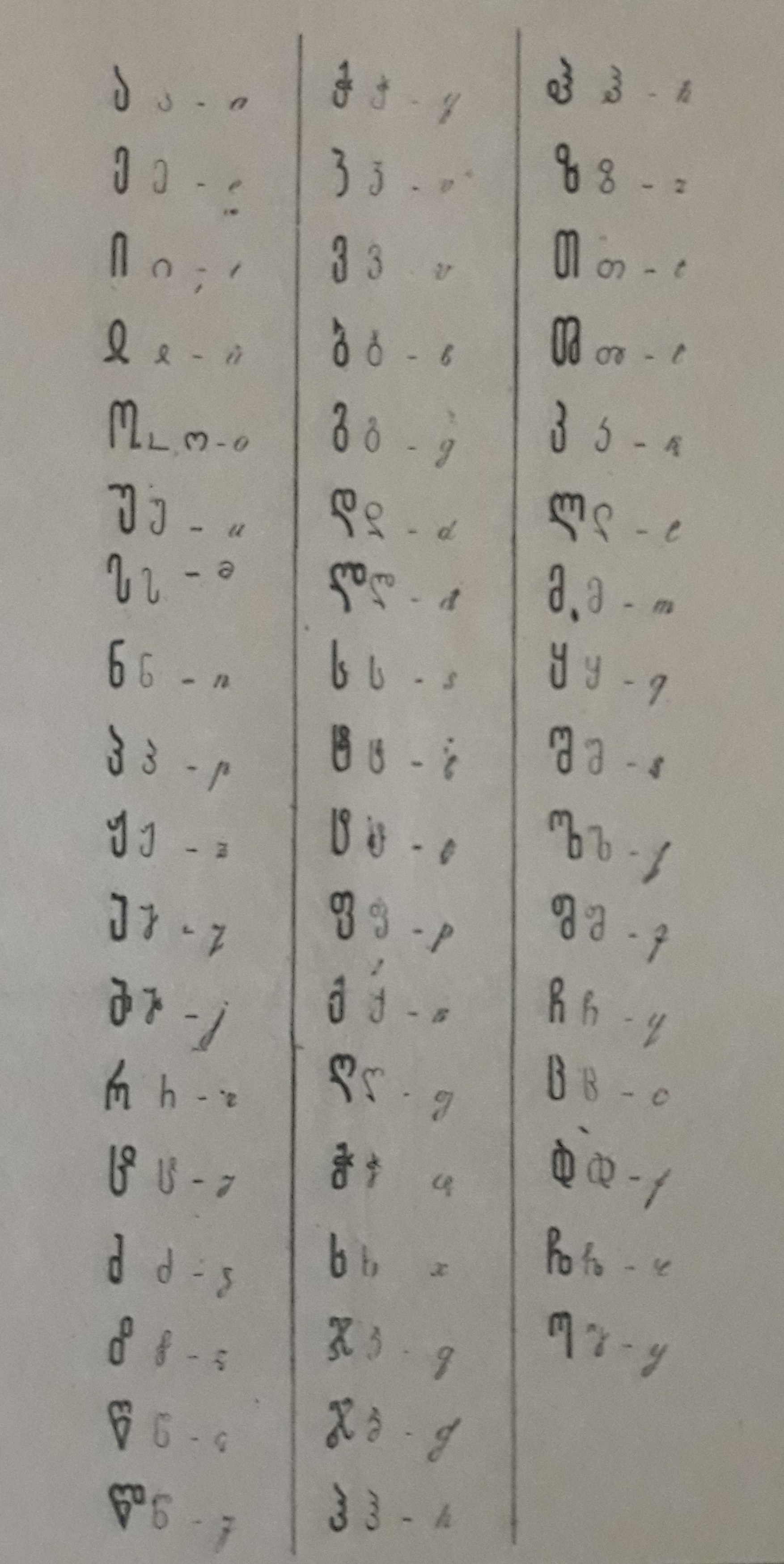 Abkhaz alphabet 1937